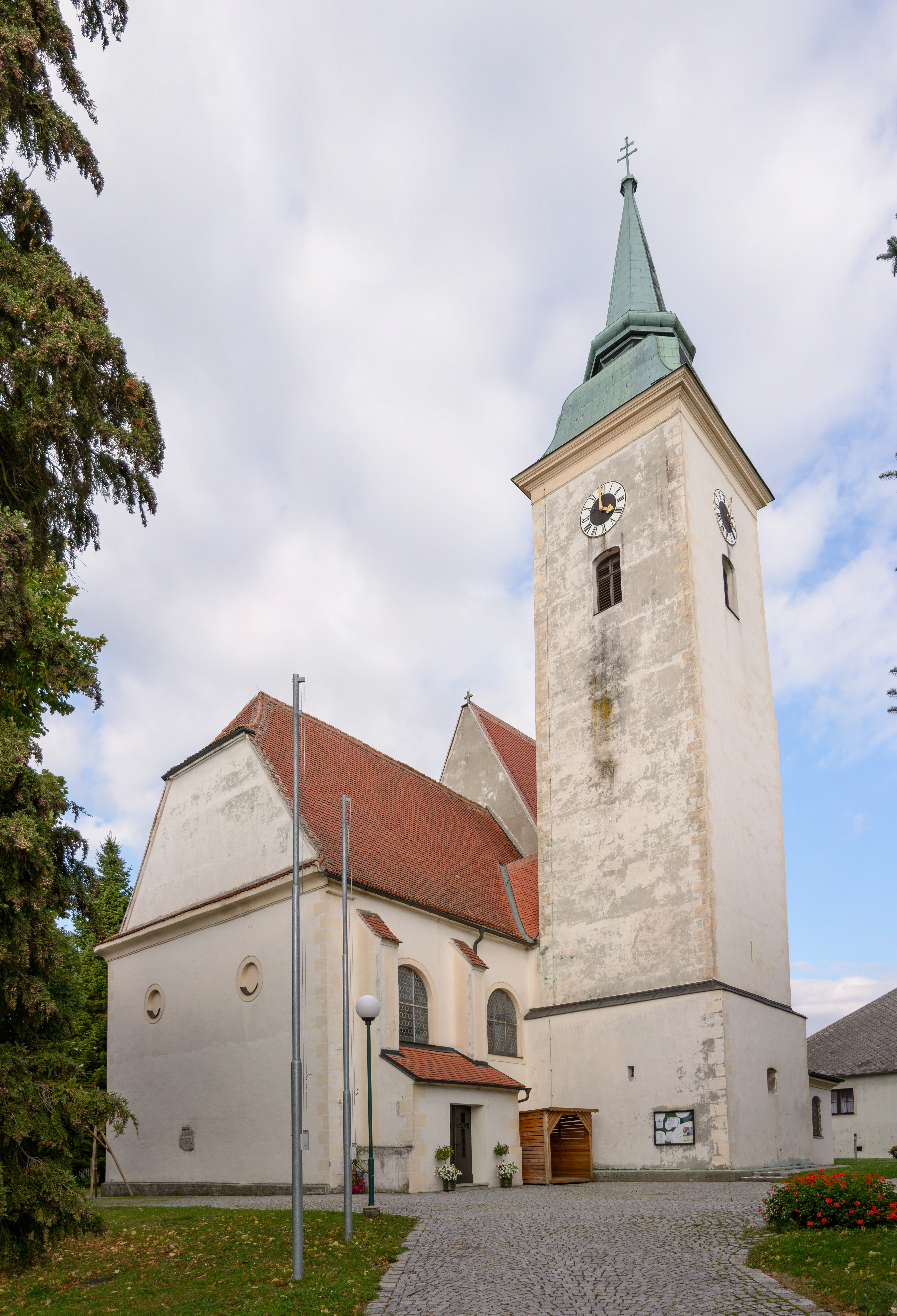 Kath. Pfarrkirche hl. Martin